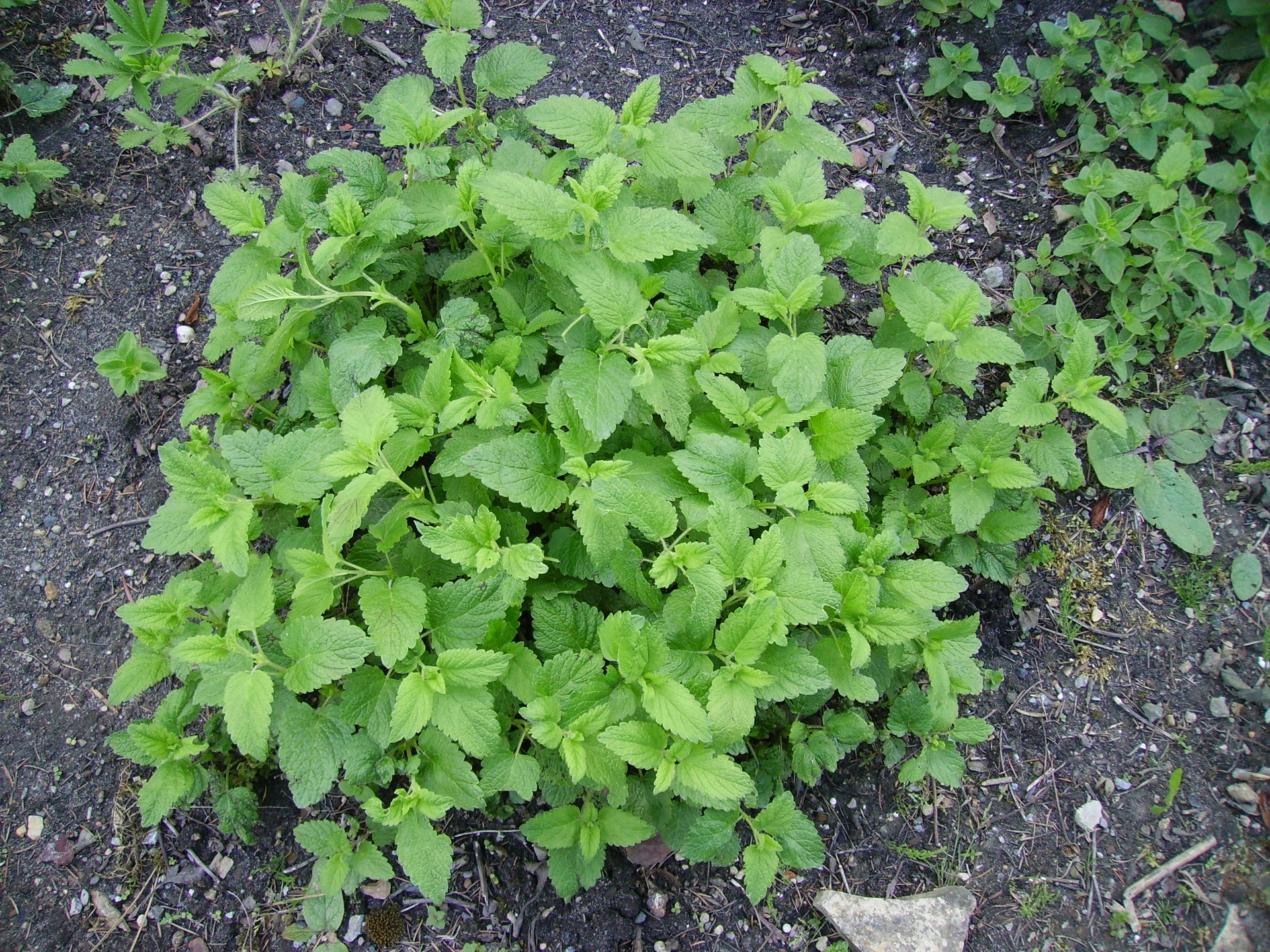 Lemon balm (Melissa officinalis)